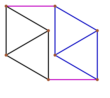 The smallest 3-regular matchstick graph.